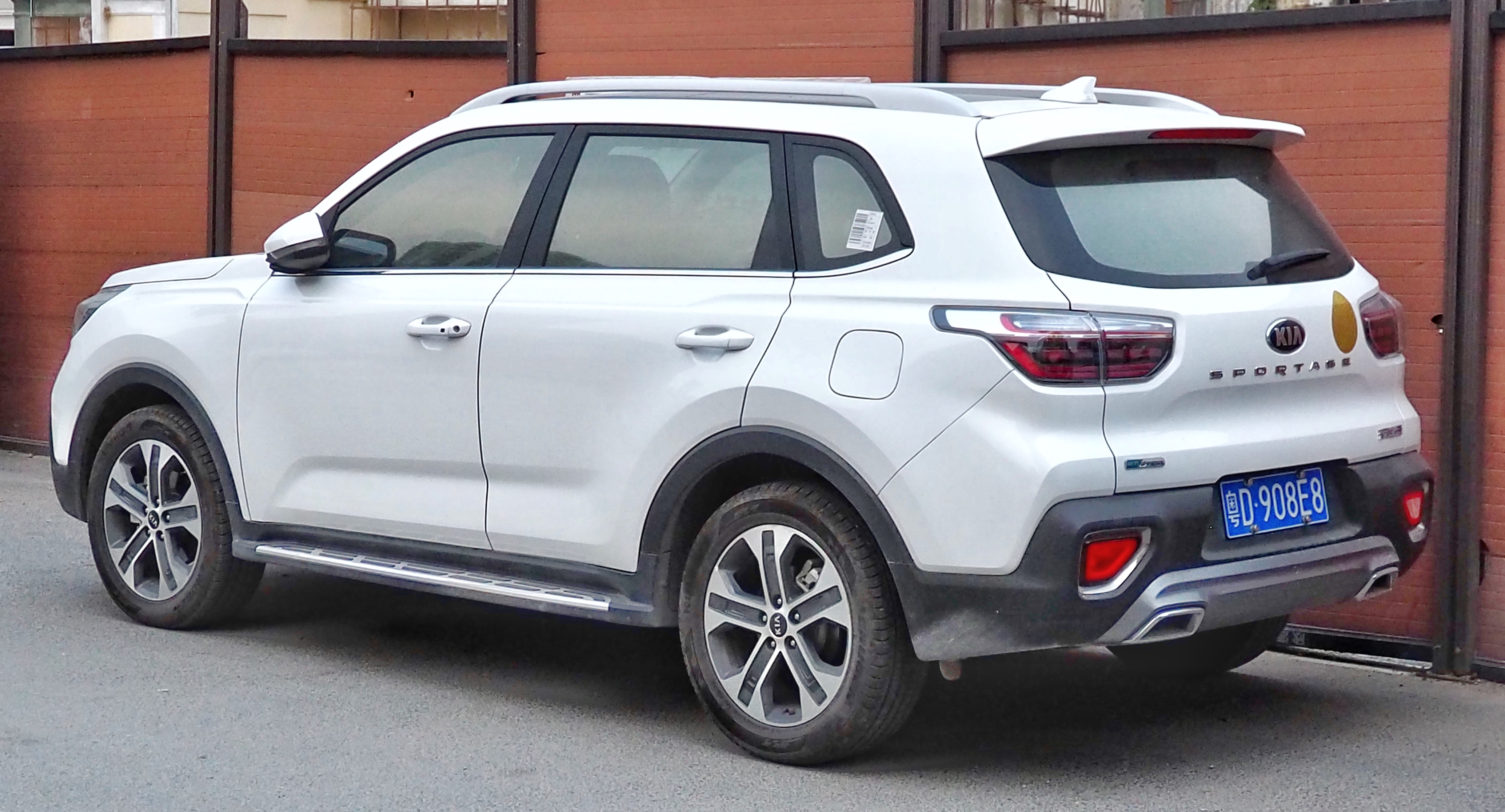 A 2018 Dongfeng-Yueda-Kia Sportage photographed in Shantou, Guangdong Province, China. 中文（中国大陆）: 一辆2018年的东风悦达起亚智跑，拍摄于中国广东省汕头市。